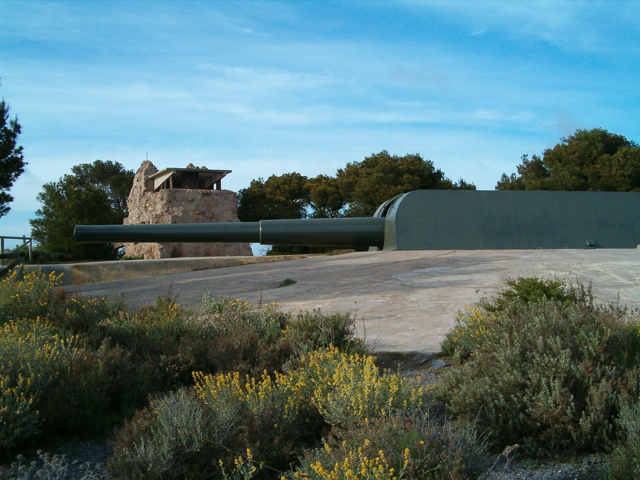 Canon battery Bateria de las Cenizas, near Cartagena, Spain